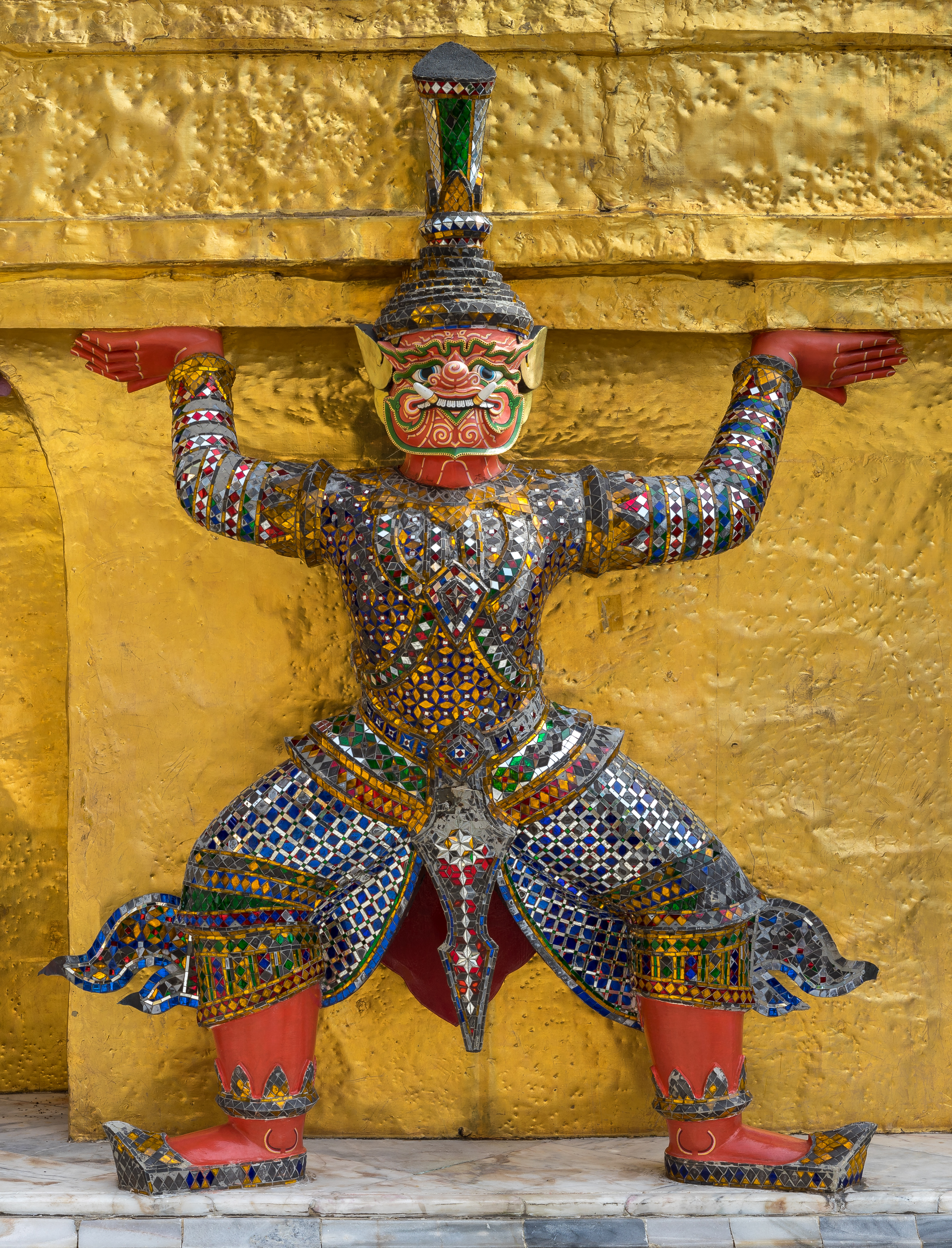 Statue of Yaksha (in the Ramakien, broad class of nature-spirits, usually benevolent, but sometimes mischievous or capricious, connected with water, fertility, trees, the forest, treasure and wilderness) supporting the base of one of the Two Golden Chedi of Wat Phra Kaew, Bangkok, Thailand.